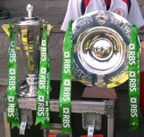 Rugby Union trophies - Ireland winners of 2009 6 nations & triple crown